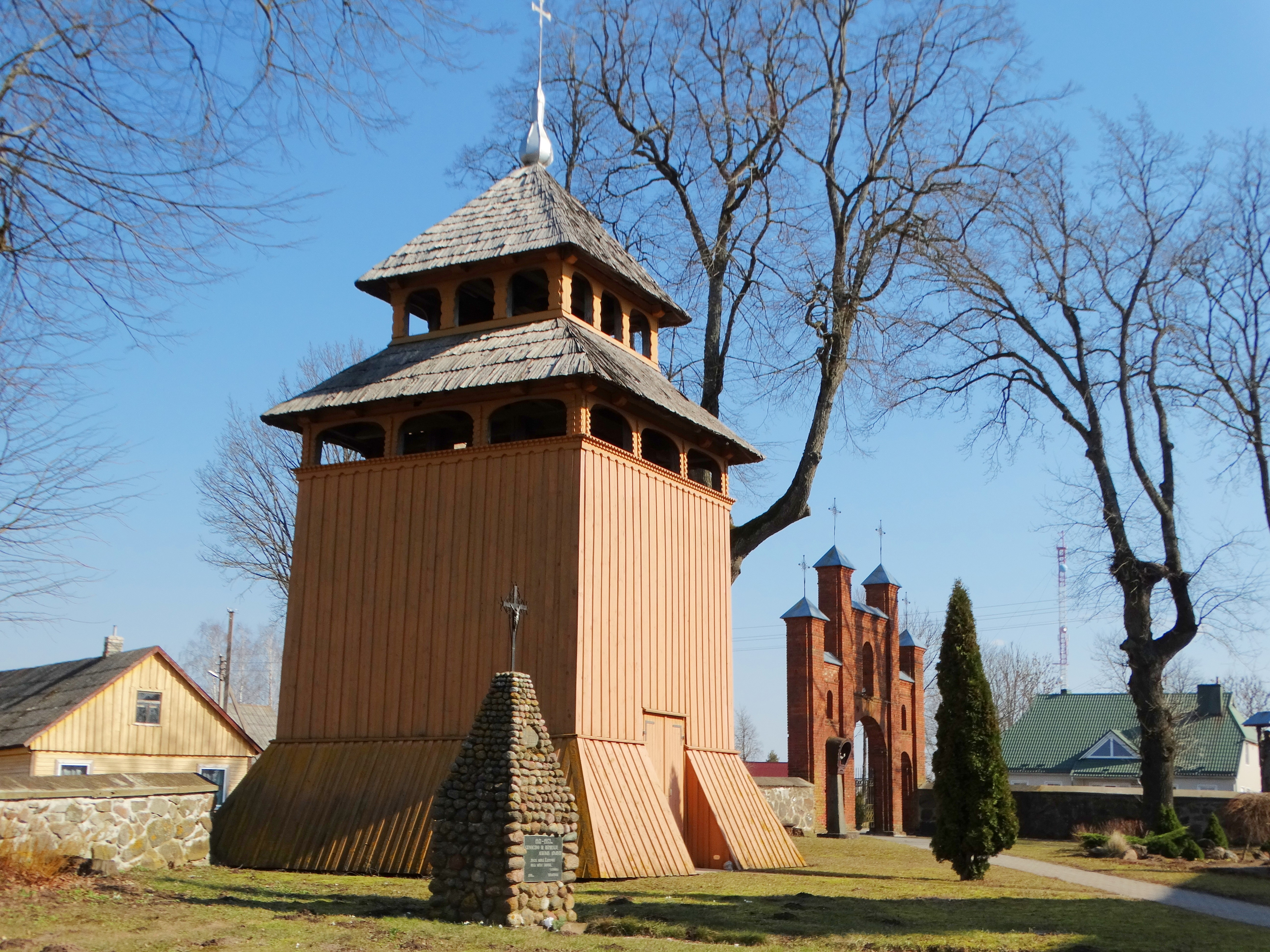 Holy Trinity Church, Tryškiai, Telšiai district, Lithuania